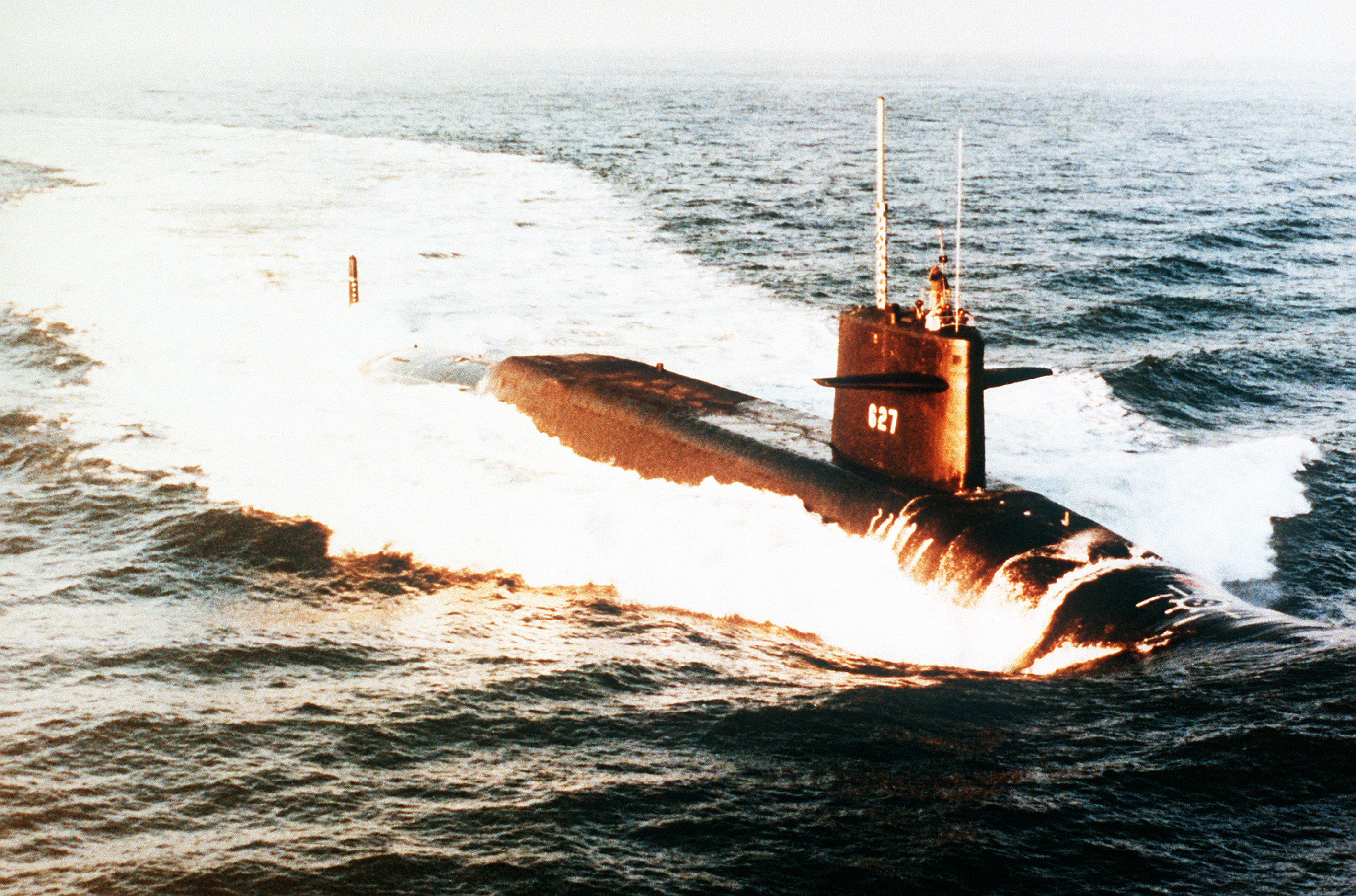 A starboard bow view of the nuclear-powered ballistic missile submarine USS JAMES MADISON (SSBN-627) underway.